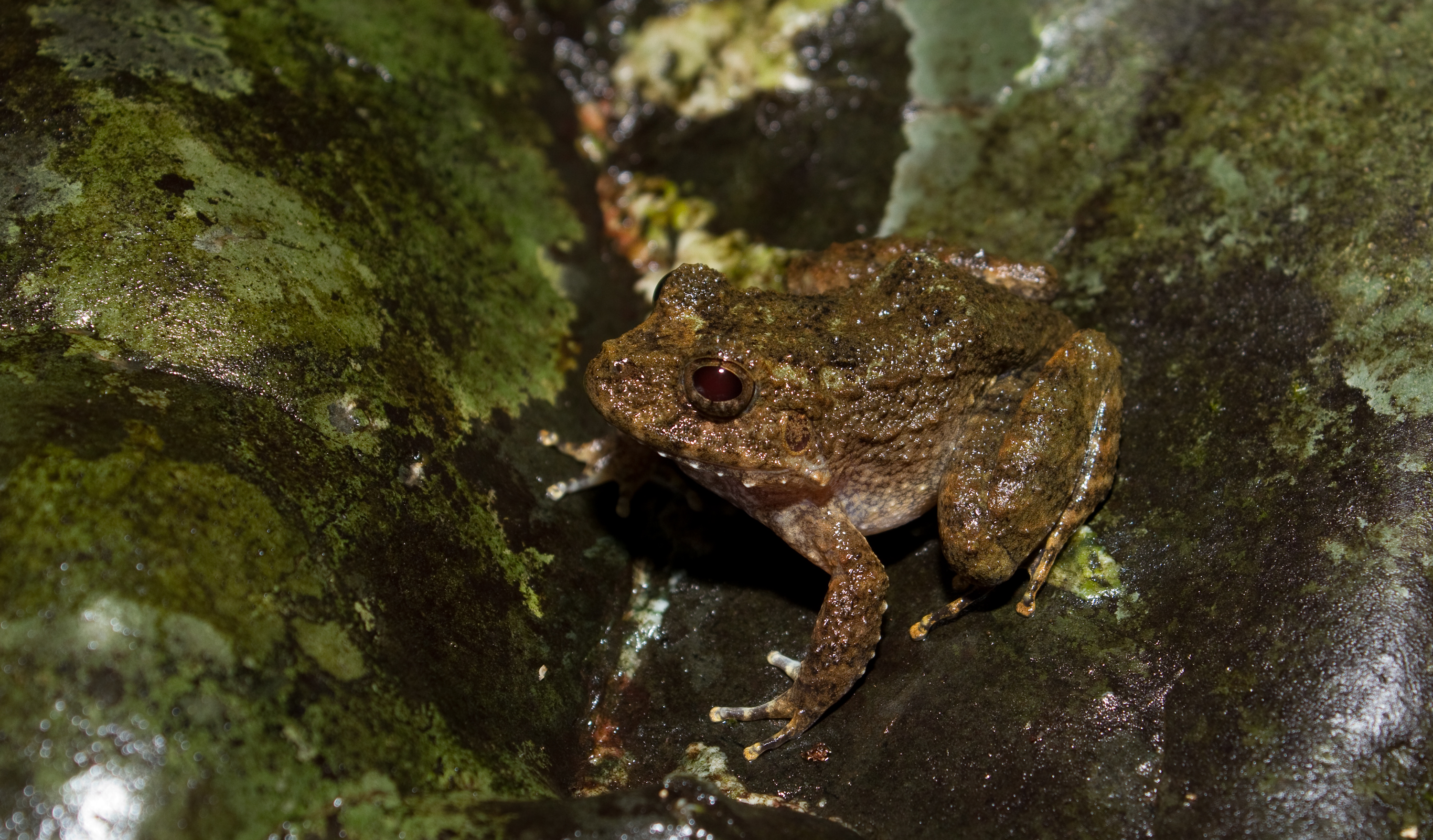 Strabomantis bufoniformis, Panama